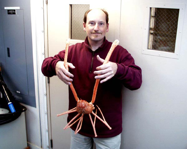 "Dr. Bradley Stevens holds a male large-clawed spider crab, Macroregonia macrochiera, collected from a depth of 3300 m on Patton Seamount in the Gulf of Alaska. This is the deepest and most northern location they have been observed."